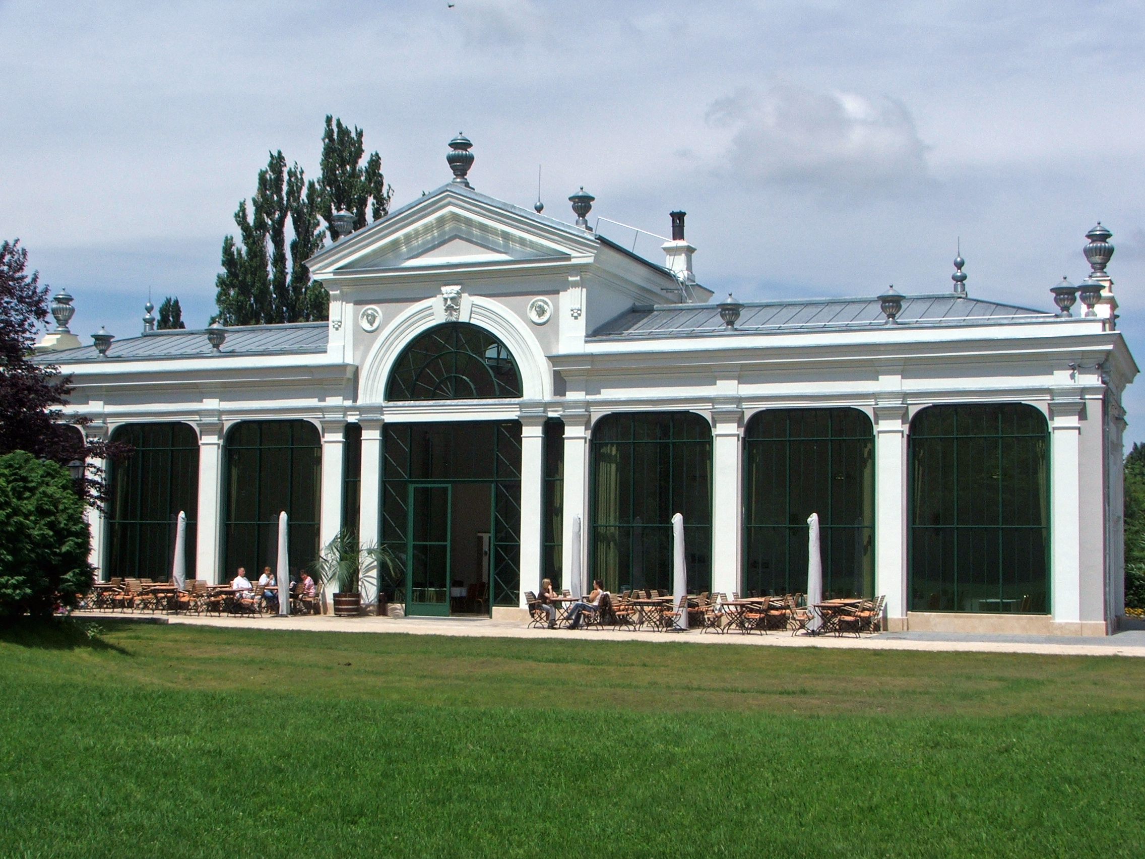 Palmhouse in Tata